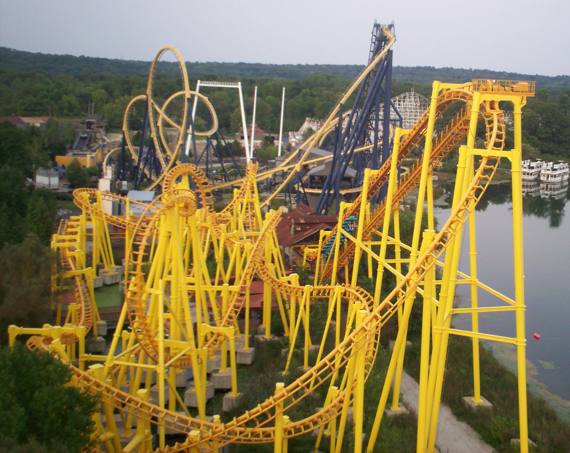 Photo of Thunderhawk as it appeared at the former Geauga Lake & Wildwater Kingdom in Aurora, Ohio in 2006. Behind the coaster is the Dominator (later moved to King's Dominion) and the Raging Wolf Bobs.